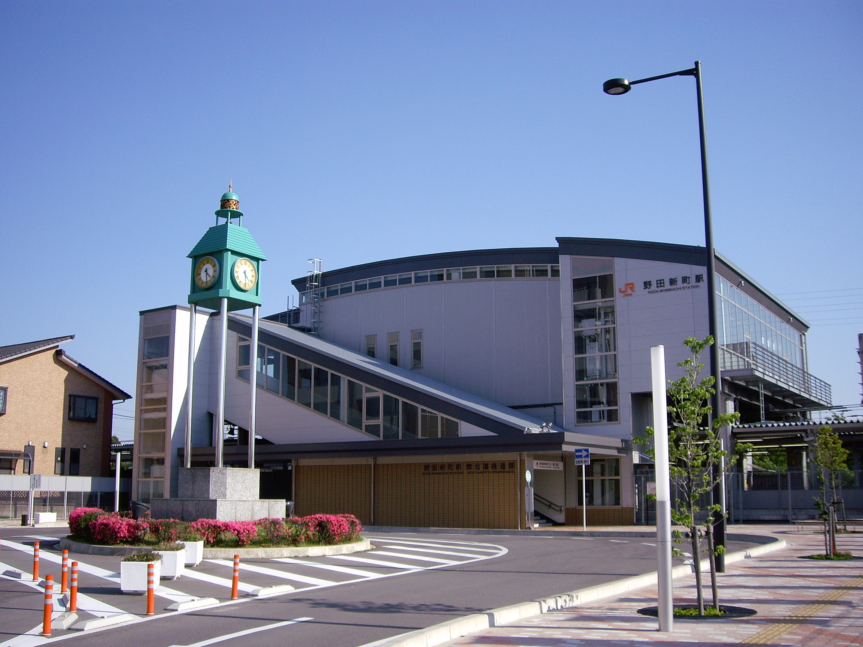 Noda-Shinmachi Station North side